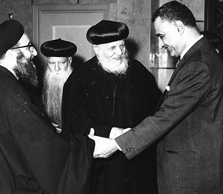 Egypt´s president Nasser with a delegation of Egyptian Coptic bishops from Daqahlia, Qena, Qous and Suhag